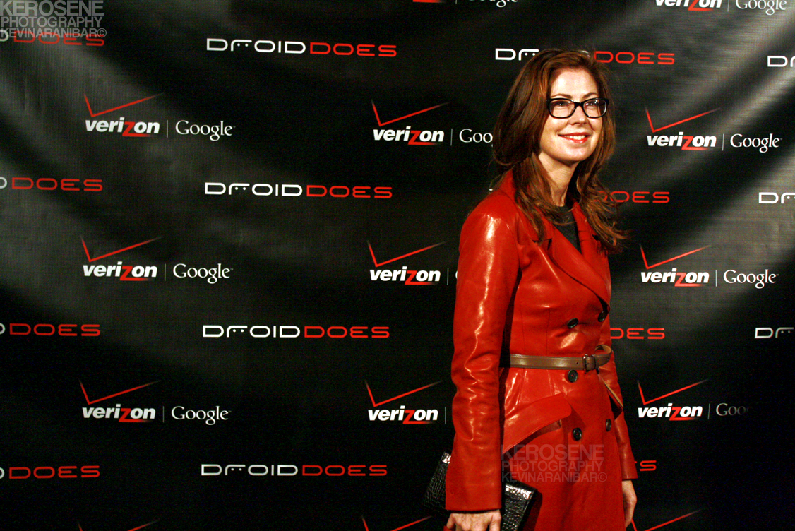 11/6/09 Driod Red carept launch party